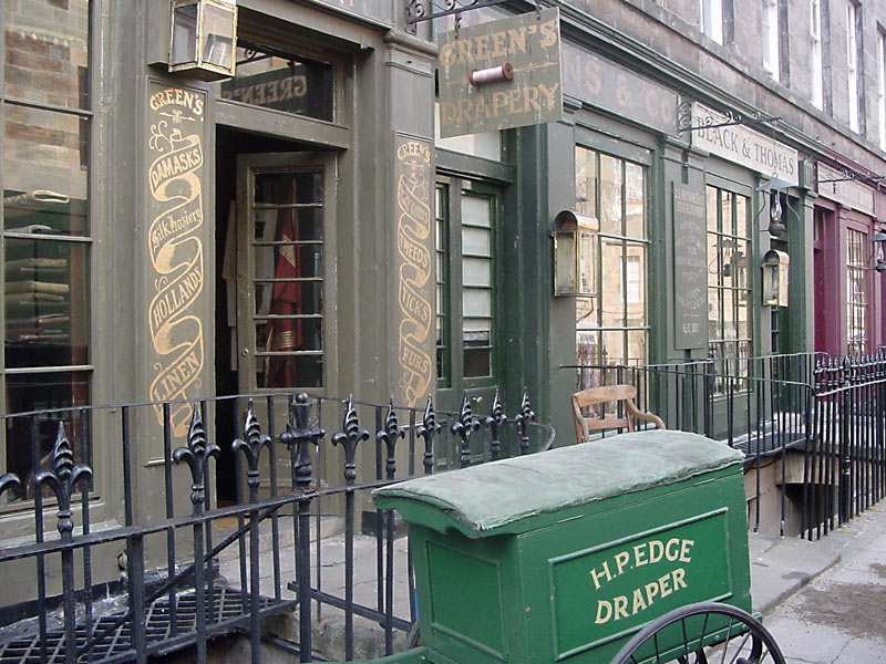 One of a series of photos I took along William Street, Edinburgh on 1st & 2nd May 2004. The street, along with various others in the Capital, had been temporarily 'disguised' to enable filming of the period drama "North and South" starring Daniela Denby-Ashe, Richard Armitage, Sinéad Cusack and Pauline Quirke. I managed a few shots after filming, but before the normal frontages were restored